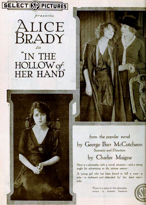 Advertisement for the American film In the Hollow of Her Hand (1918) with Alice Brady, on page 144 of the January 11, 1919 Moving Picture World.